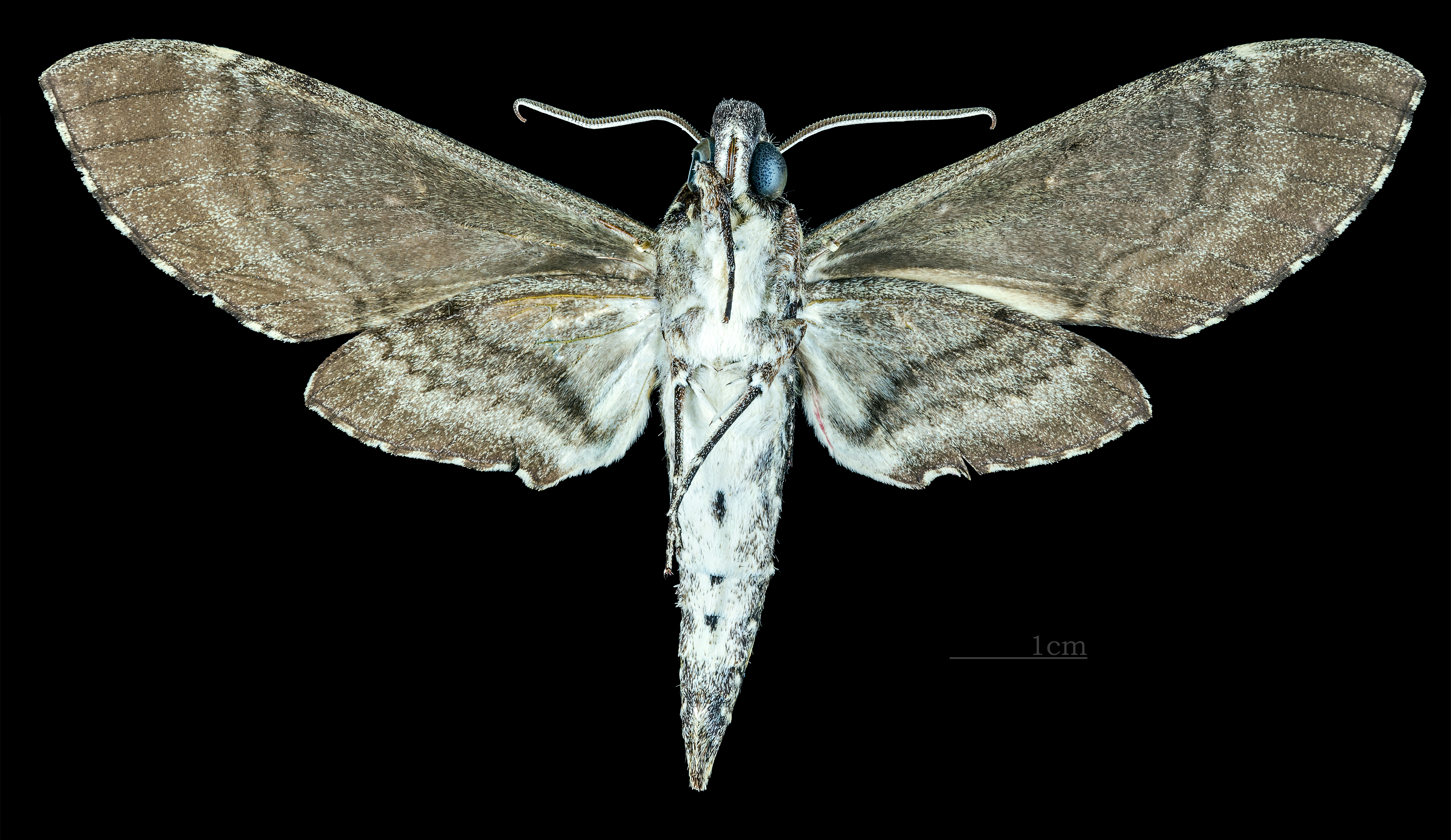 Manduca clarki - △ Ventral side